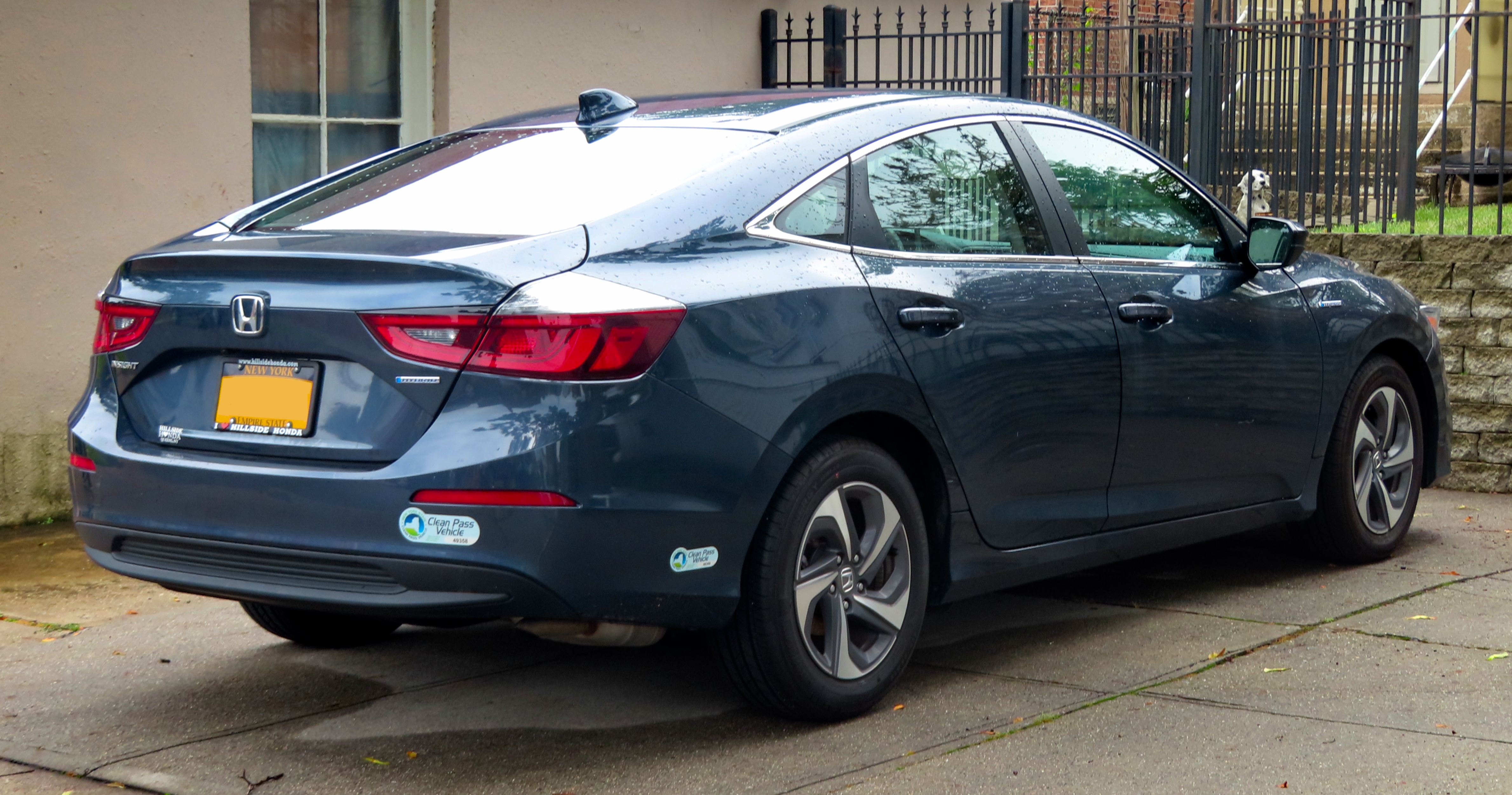 A 2019 Honda Insight LX photographed in Flushing, Queens, New York, USA